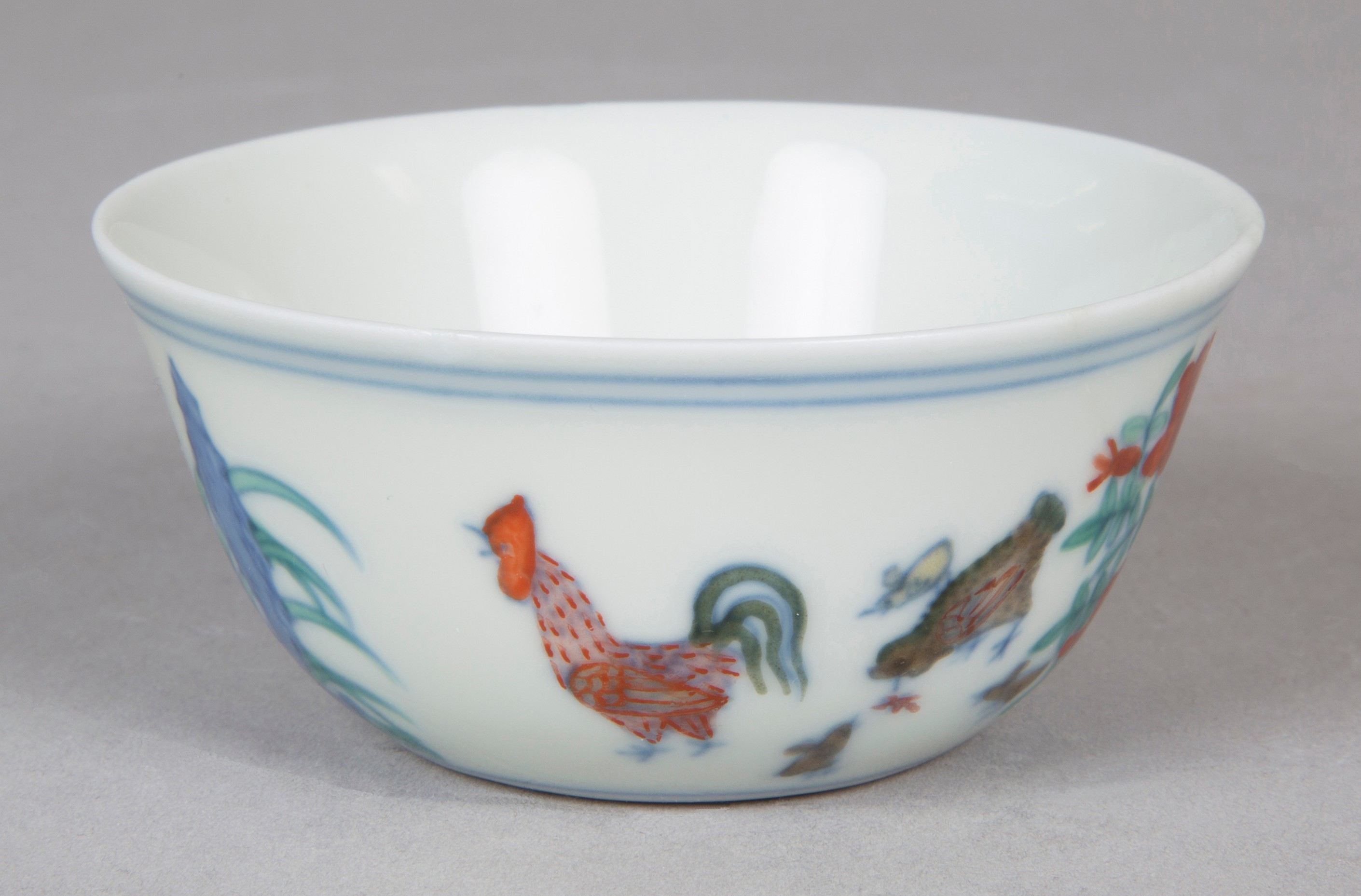 China; Cup; Ceramics